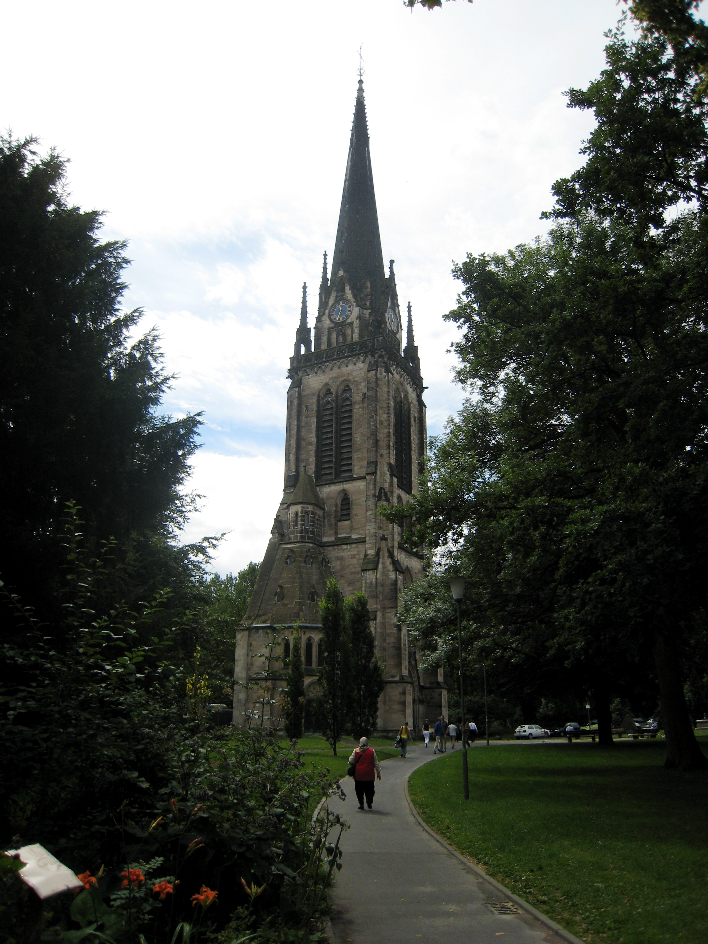 This neogothic tower is all that remains of the original 1894 Lutherkirche in central Kassel. Services are now being held in a modern concrete building nearby.